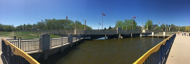 Albert Memorial Bridge, Regina, Saskatchewan